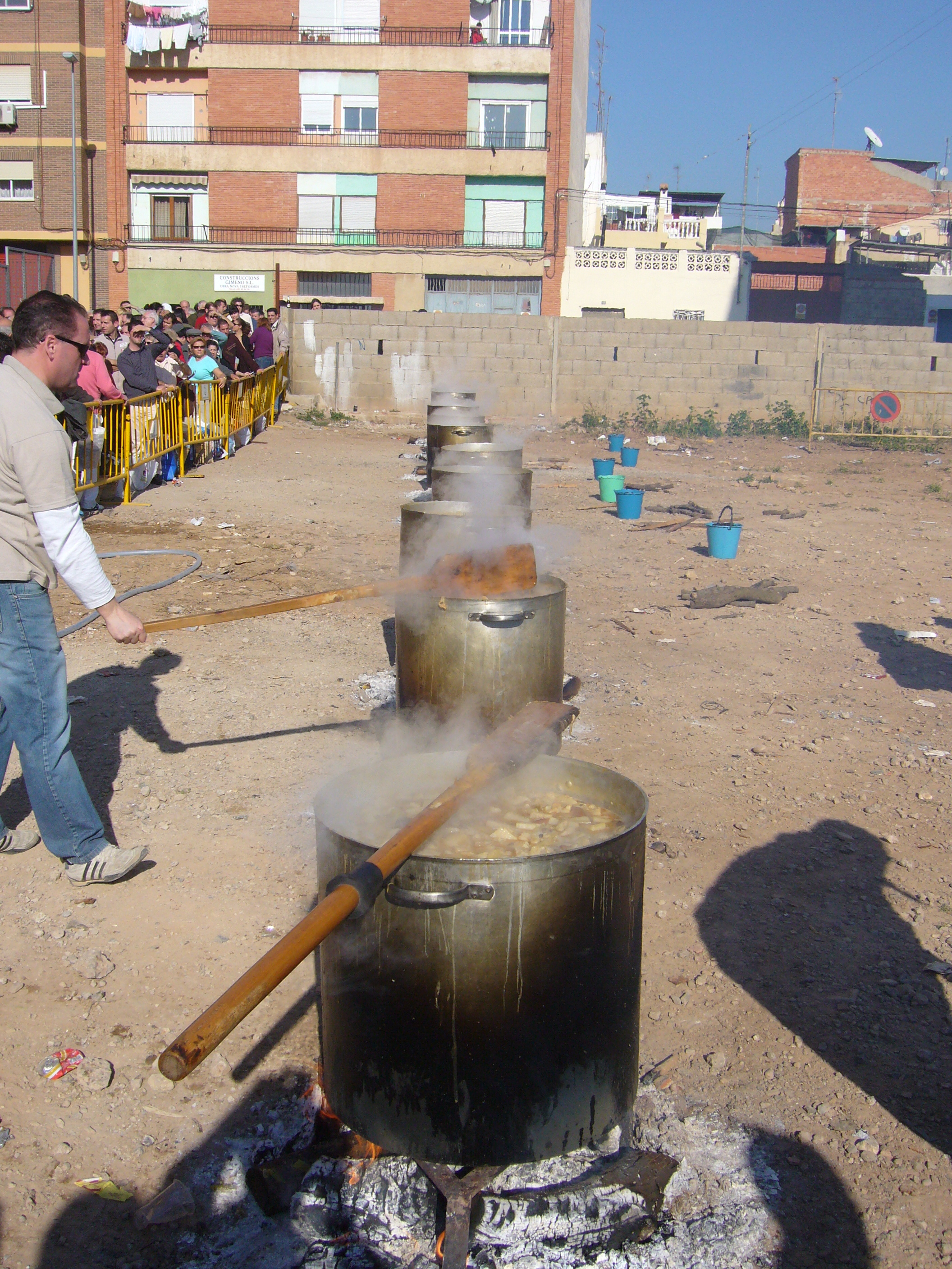 cooking caldera in Massalfassar